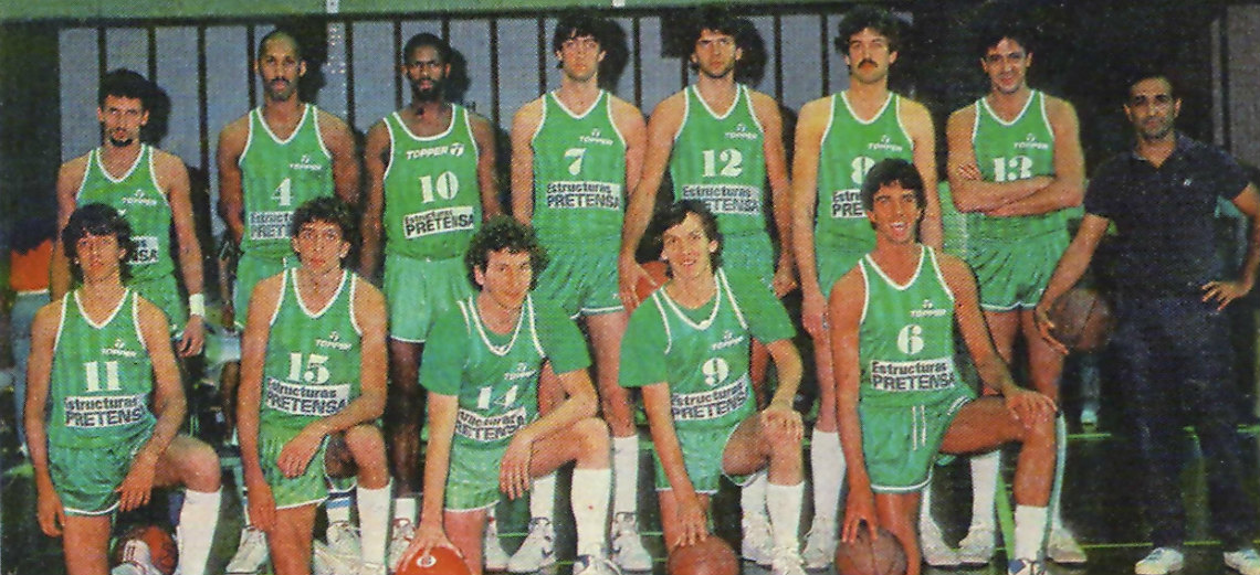 The complete Atenas de Córdoba roster team that won its first LNB title. Some of the players pictured are: Héctor Campana (5) and Marcelo Milanesio (9).